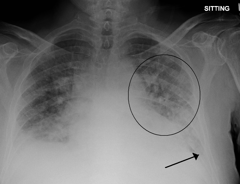 Interstitial and alveolar pulmonary edema with small pleural effusions on both sides.